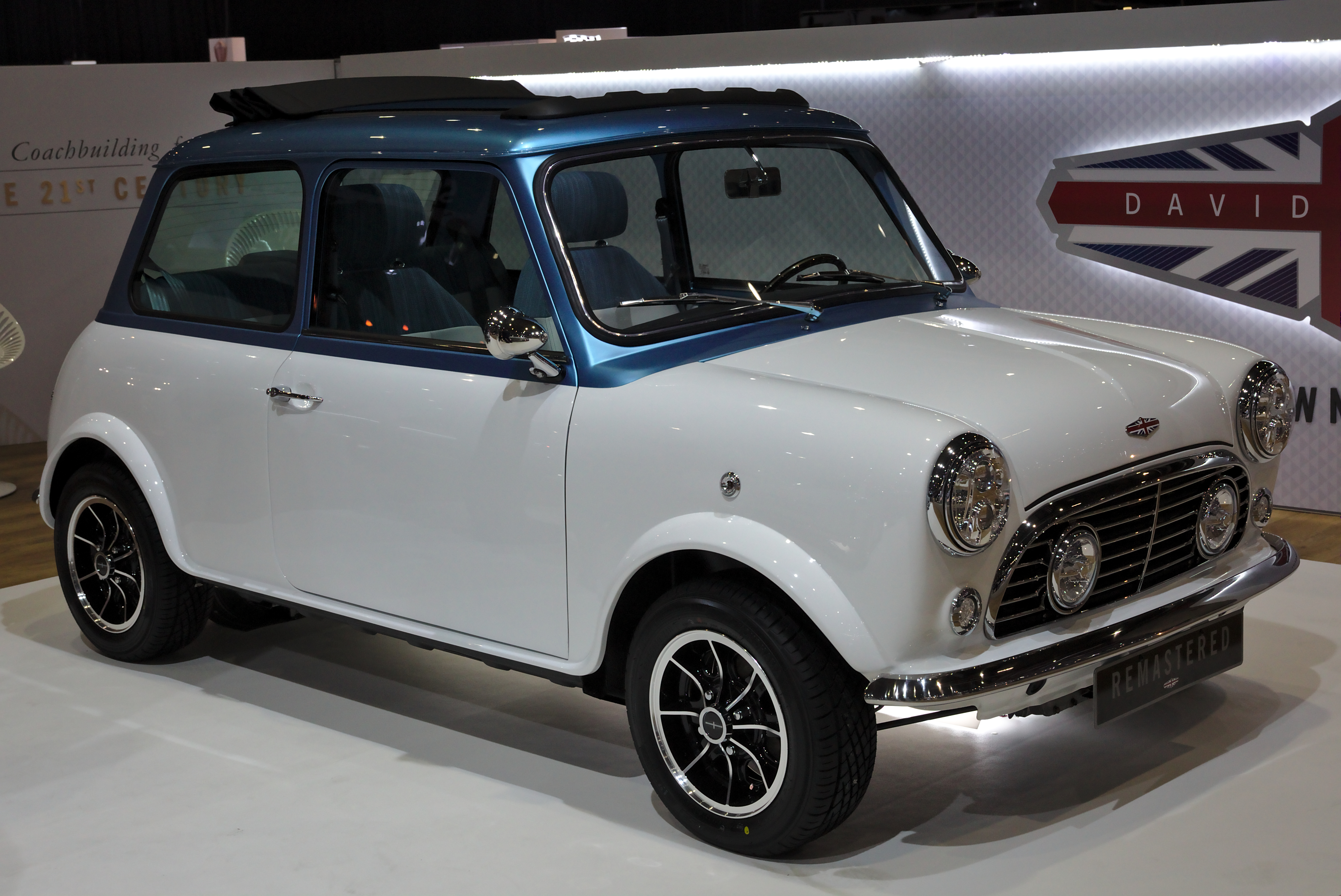 David Brown Mini Remastered at Geneva Motor Show 2019